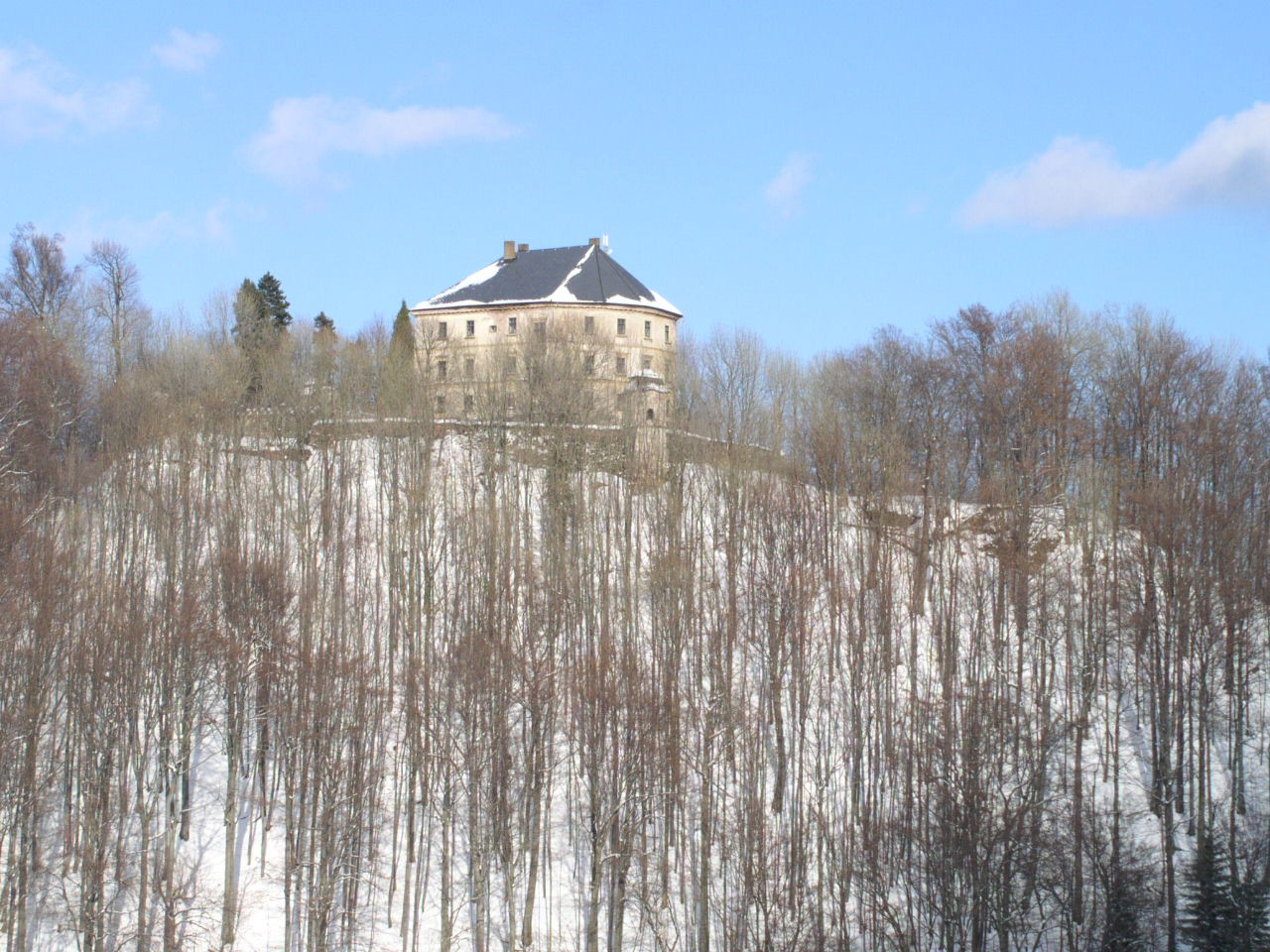 Zacler Castle, Czech Republic